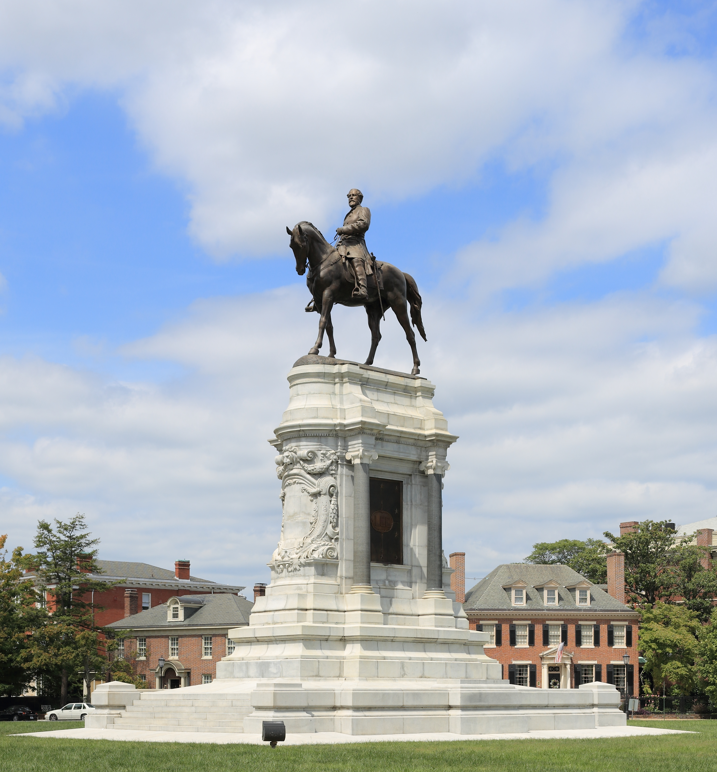 The Robert E. Lee Monument was the first and is the largest of Monument Avenue's monuments in Richmond, Virginia. In 1876, the Lee Monument Association commissioned the adaption of a painting done by artist Adalbert Volck into a lithograph. The lithograph, depicting Lee on his horse, was the basis for the bronze statue created by French sculptor Antonin Mercié. The statue was removed in 2020.